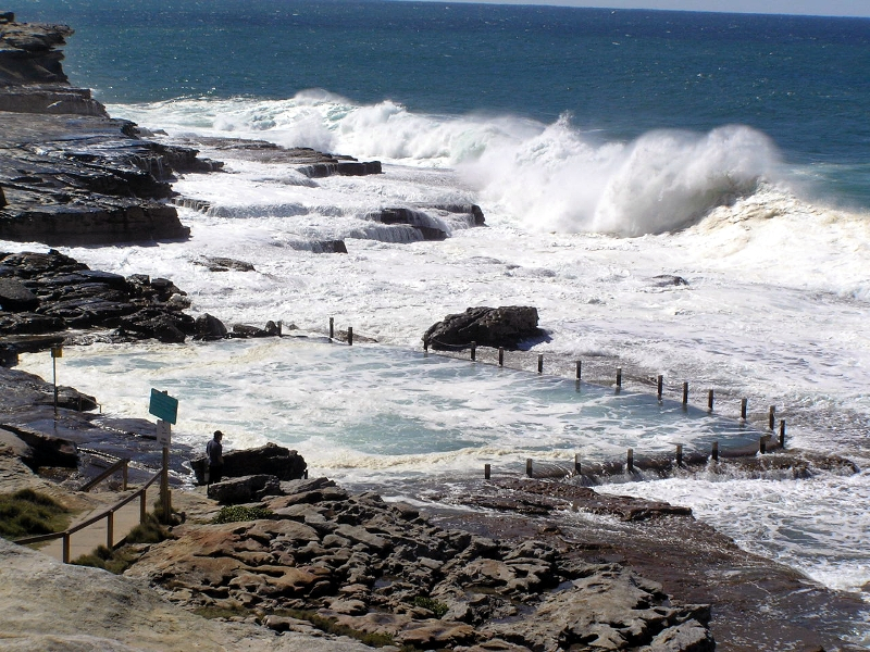 Maroubra